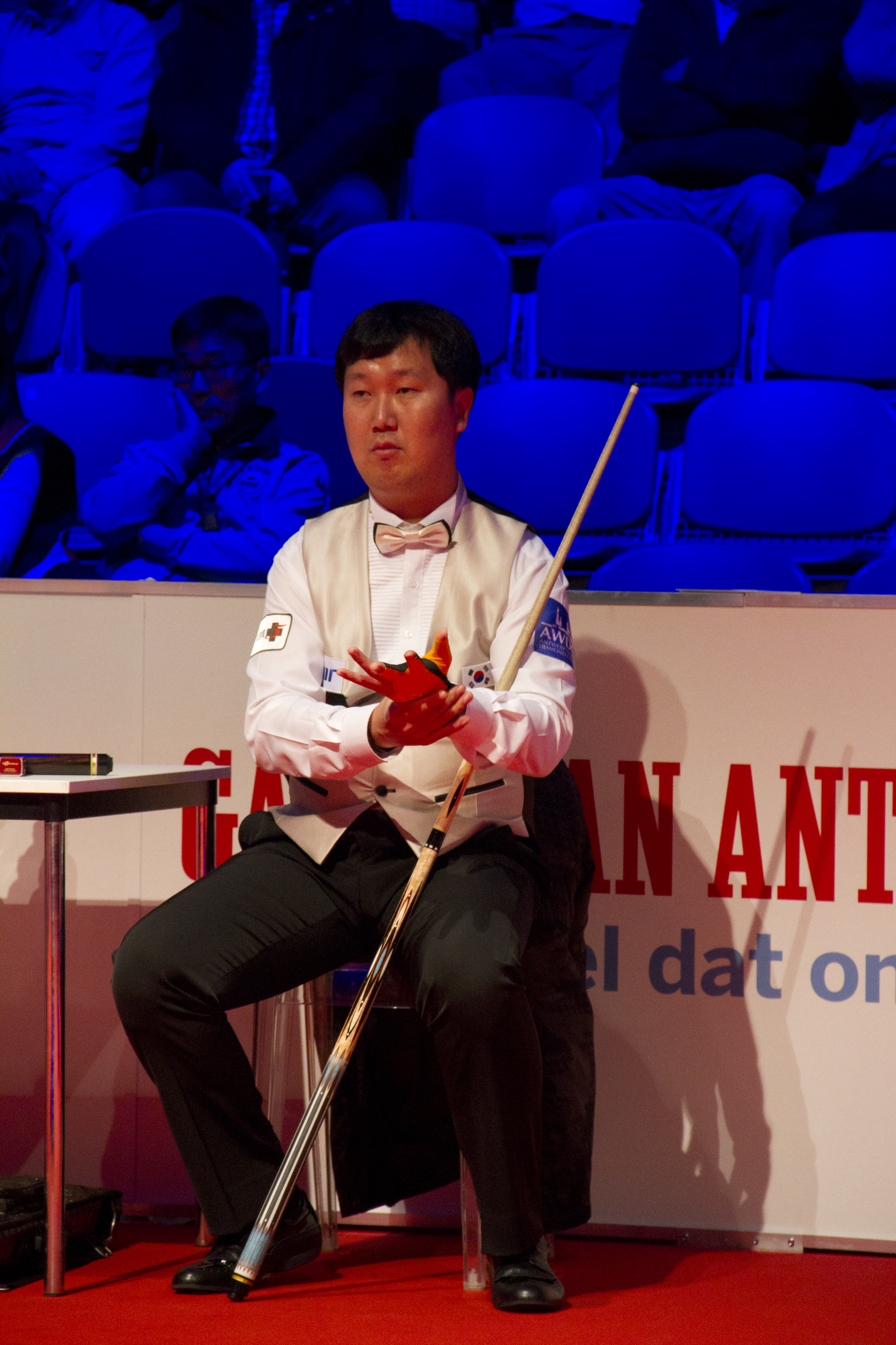 Group matches-Part 7 Match 1: Lütfi Çenet (TUR) vs. Kang Dong-koong (KOR) Match 2: Kim Kyung-roul (KOR) vs. Sergio Jimenez (ESP) Match 3: Cho Jae-ho (KOR) vs. Miguel Canton (VEN) Match 4: Filipos Kasidokostas (GRE) vs. Willian Villanueva (VEN)